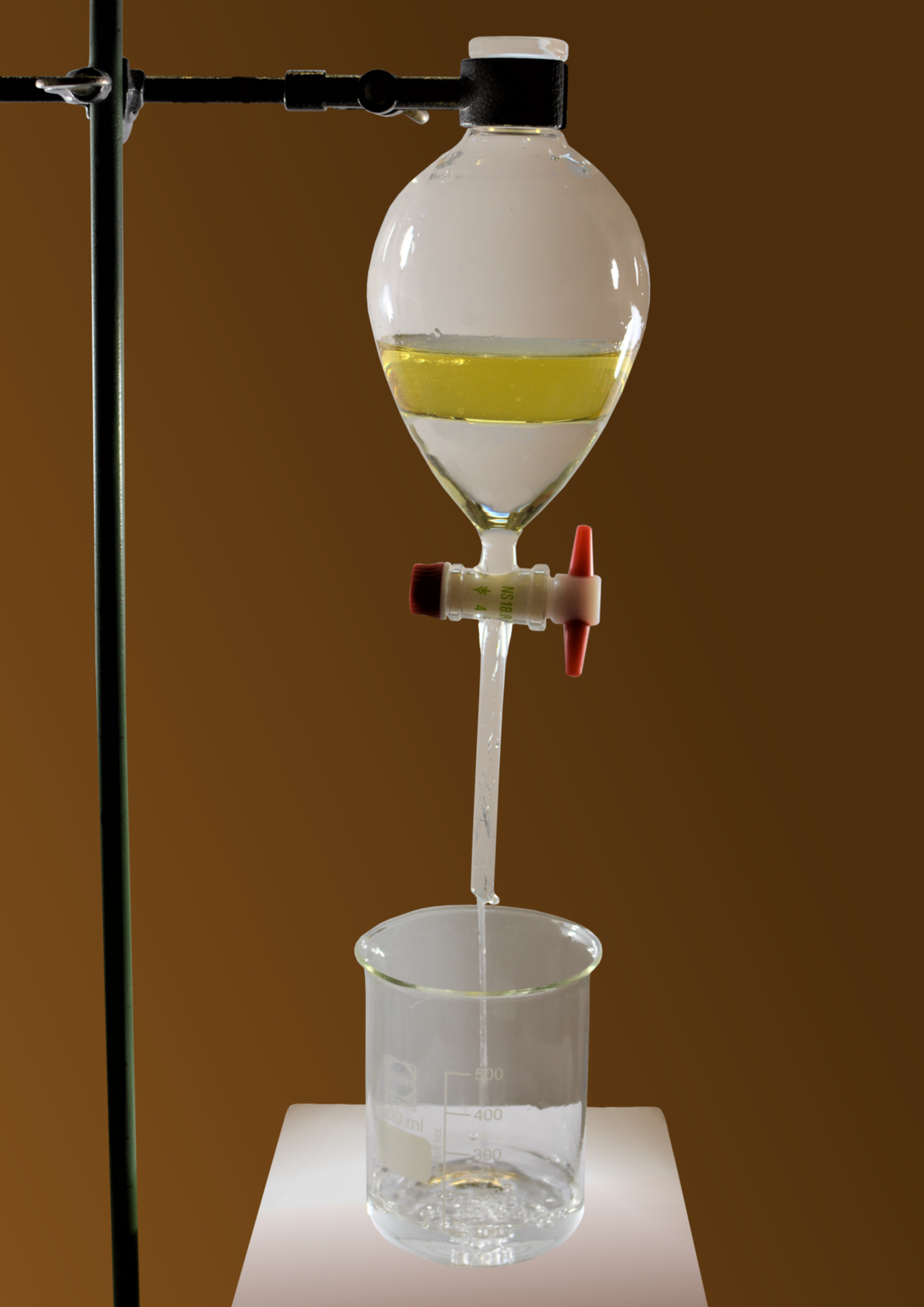 sepratory funnel brown backround (filled)